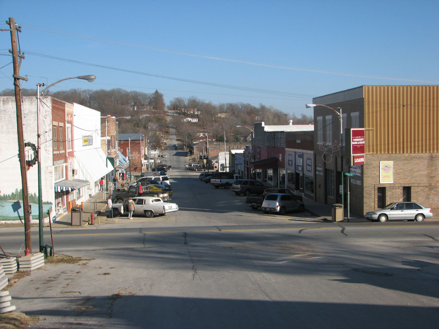 Photograph of Anderson, Missouri's main street taken in November, 2006, taken by RebelAt.